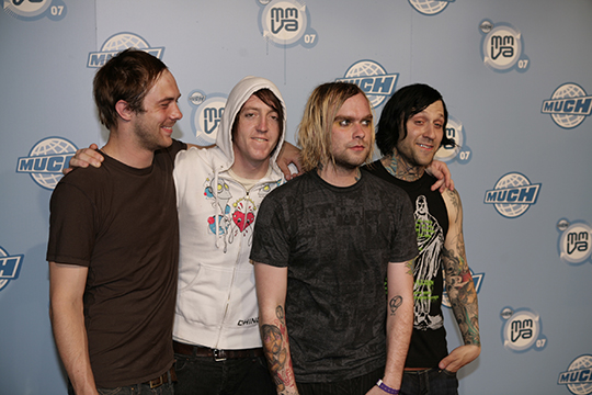 The Used was an attendee at the 2007 MuchMusic Video Awards, held the night of Sunday, June 17, 2007 in Toronto, Ontario, Canada.